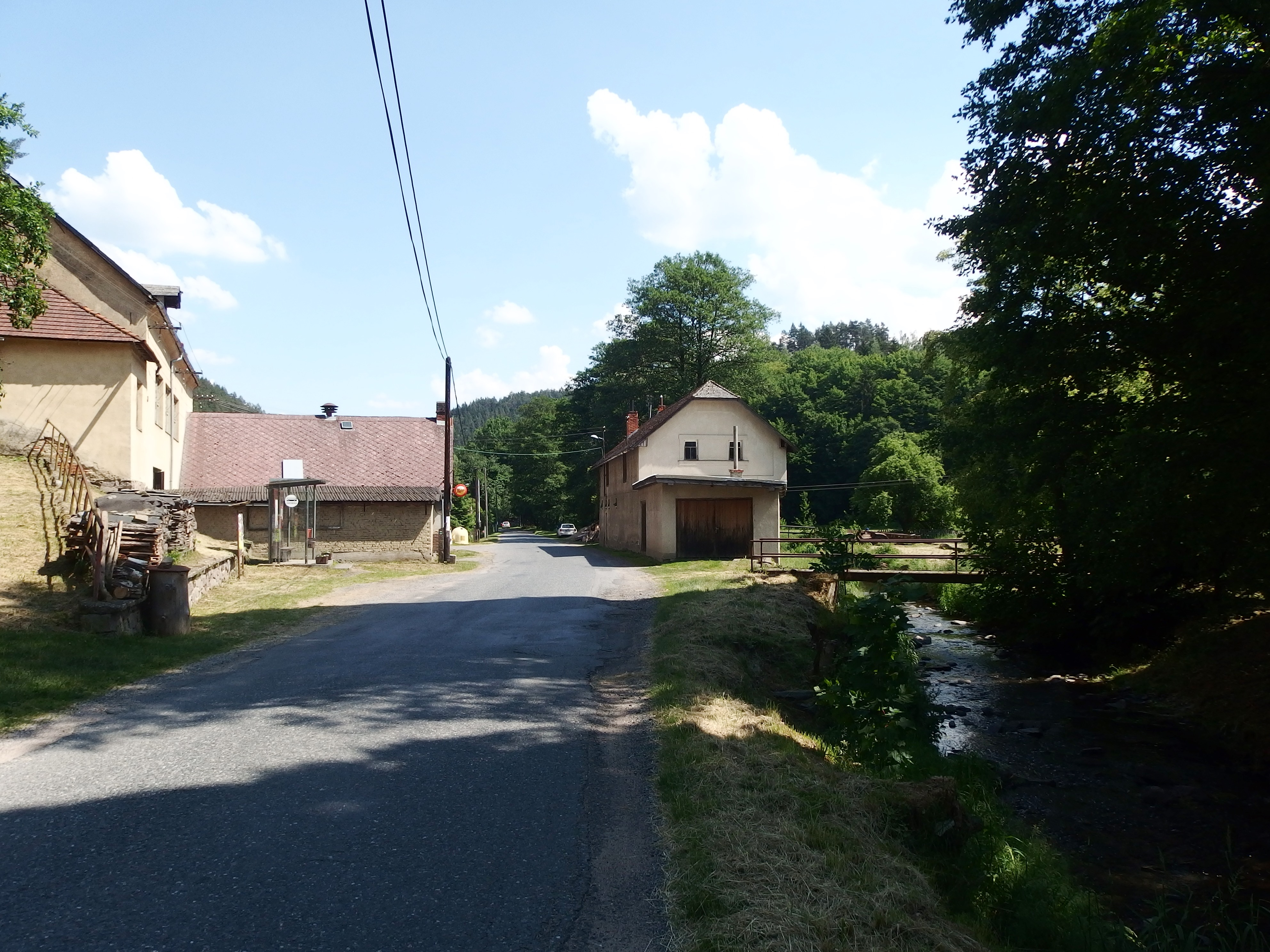 Svojanov, Svitavy District, Czech Republic, part Dolní Lhota.